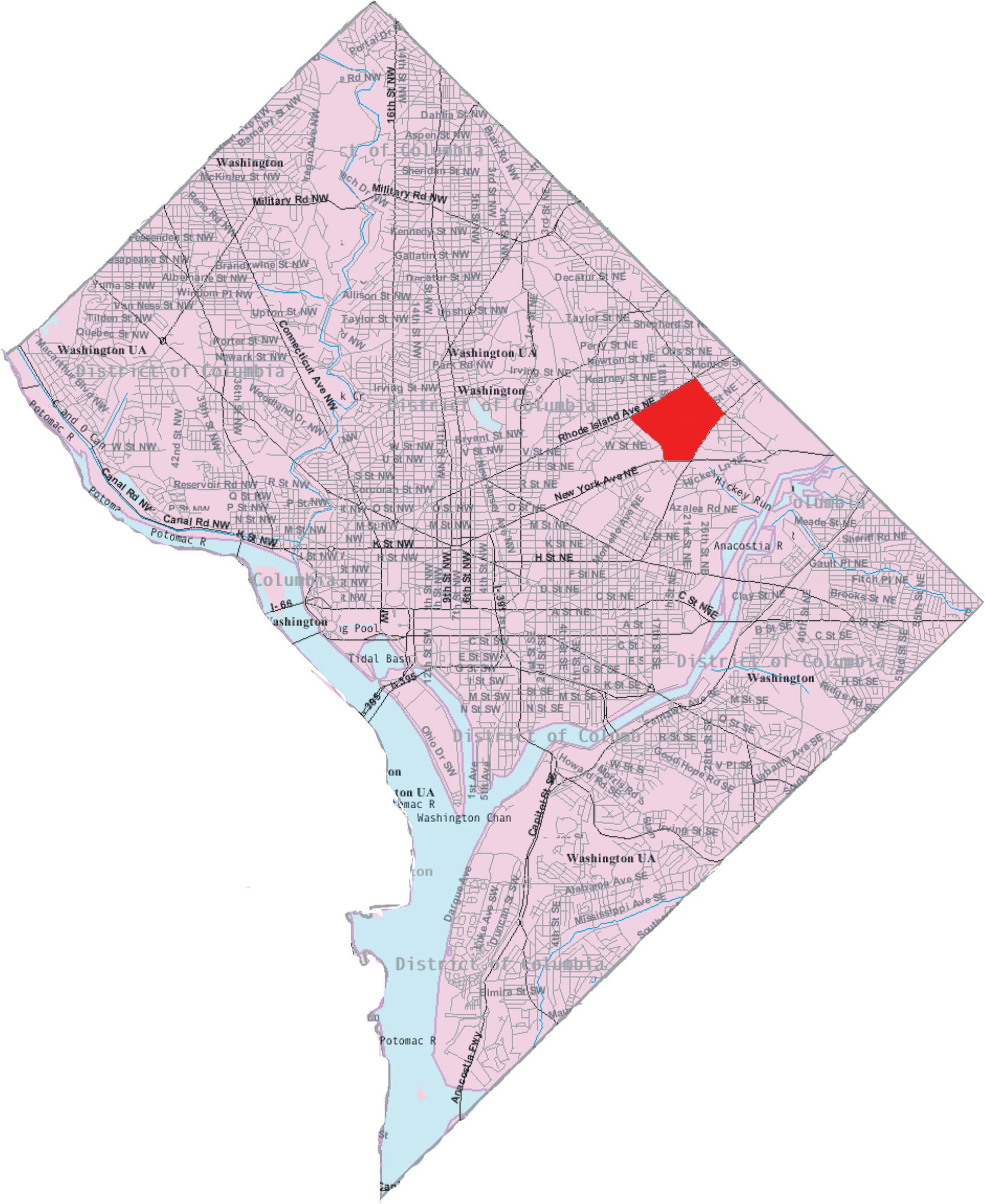 This image is a modified version of a self-generated reference map from the U.S. Census Bureau's American Factfinder at by Wikipedia user Msclguru.